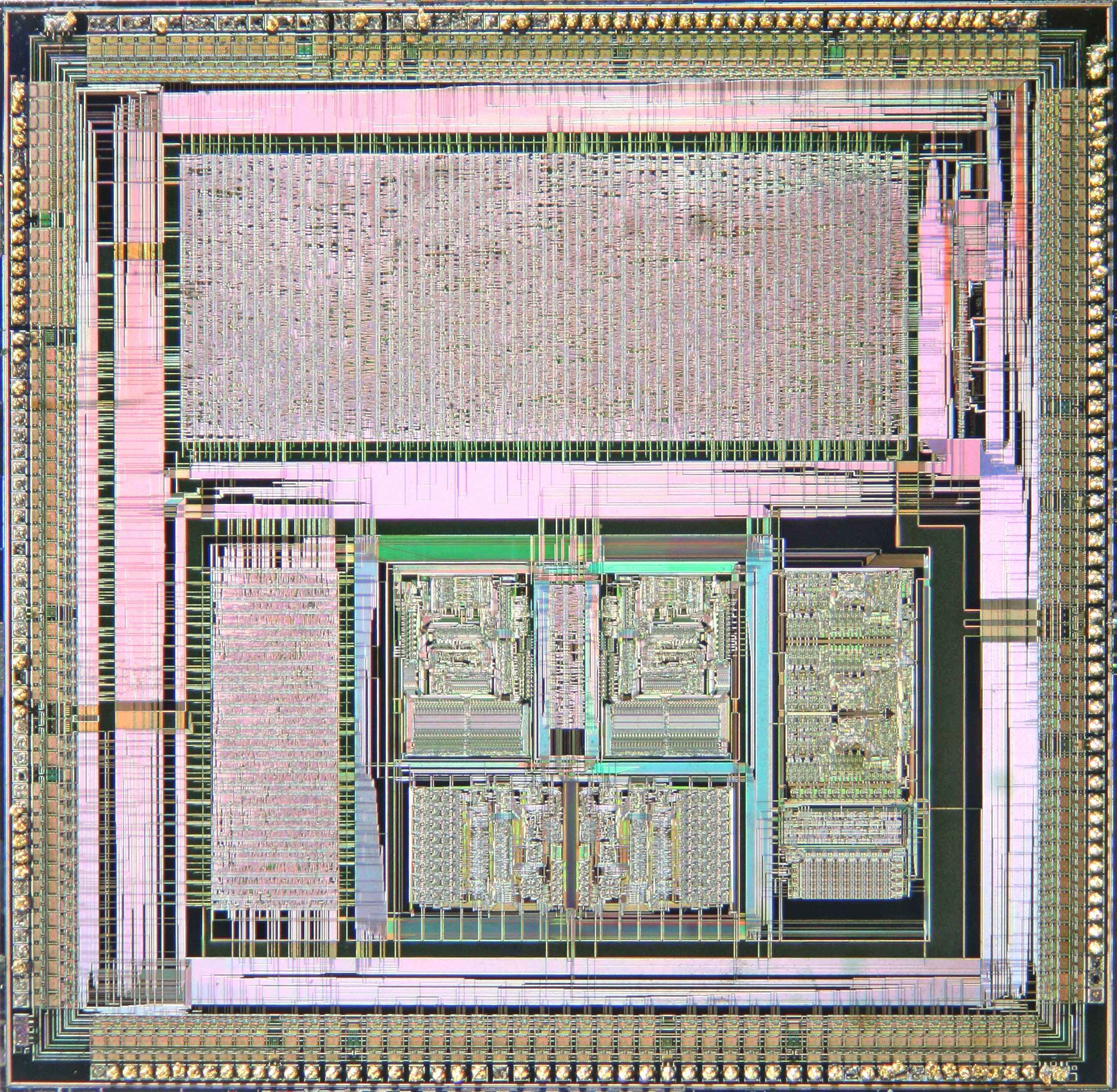 The VLSI Technology VL82C486 Single Chip 486 System Controller incorporates several devices essential to the implementation of an Intel 486 based PC/AT-compatible computer system.